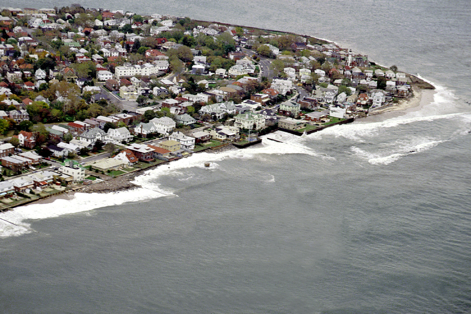 Aerial view of the Sea Gate community located on the westernmost extremity of Coney Island, Brooklyn, New York City.